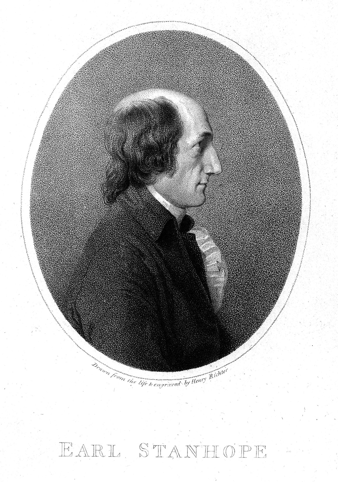 Charles Stanhope Iconographic Collections